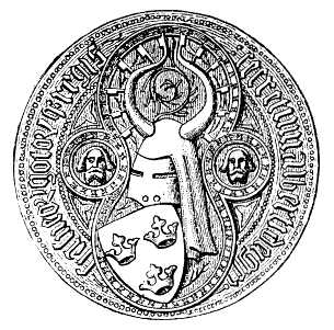 Albert of Sweden, the kings seal